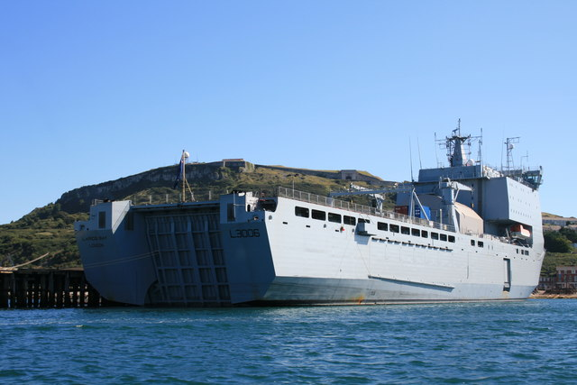 "Largs Bay L3006" in Portland harbour